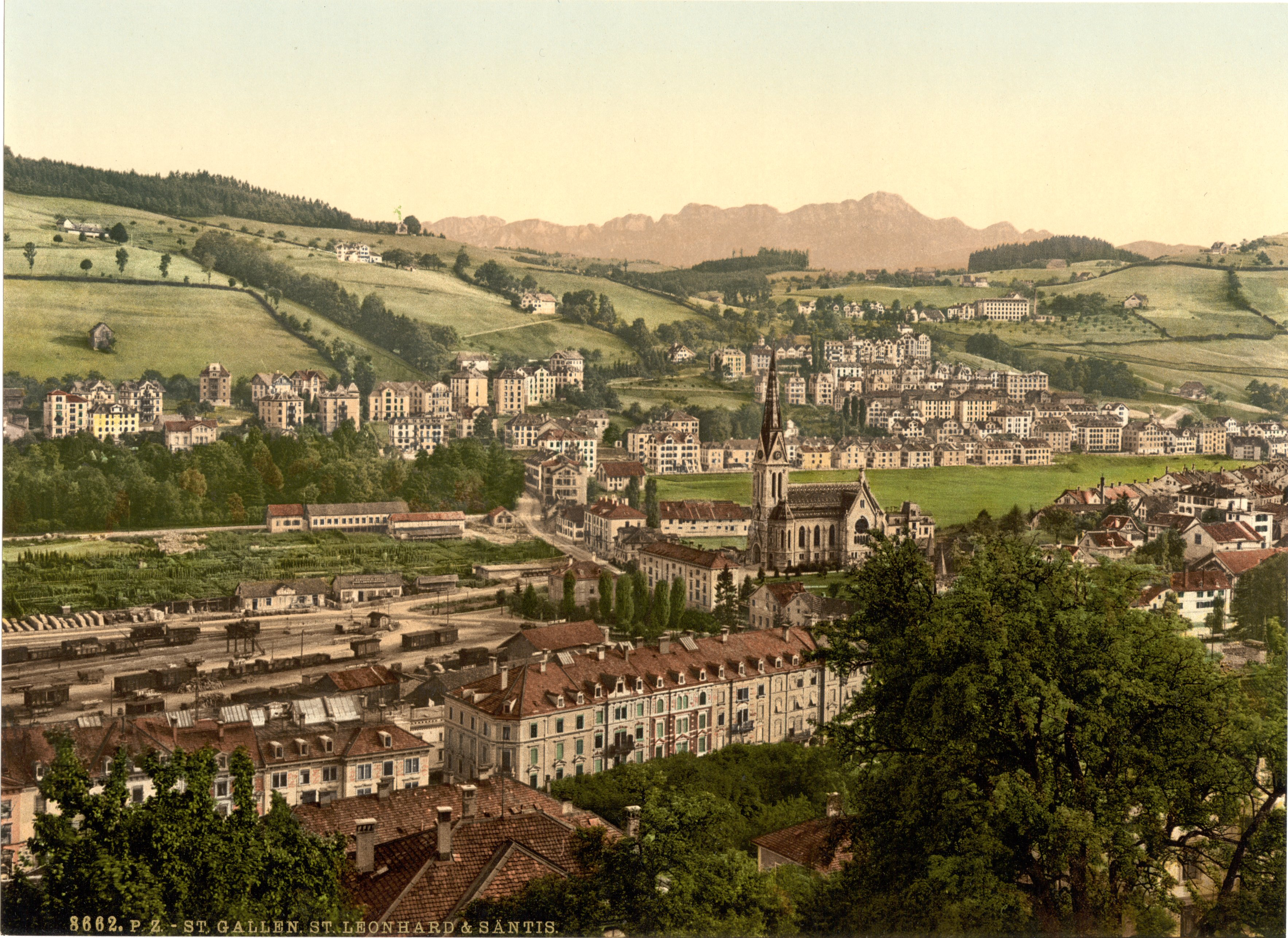 Walensee